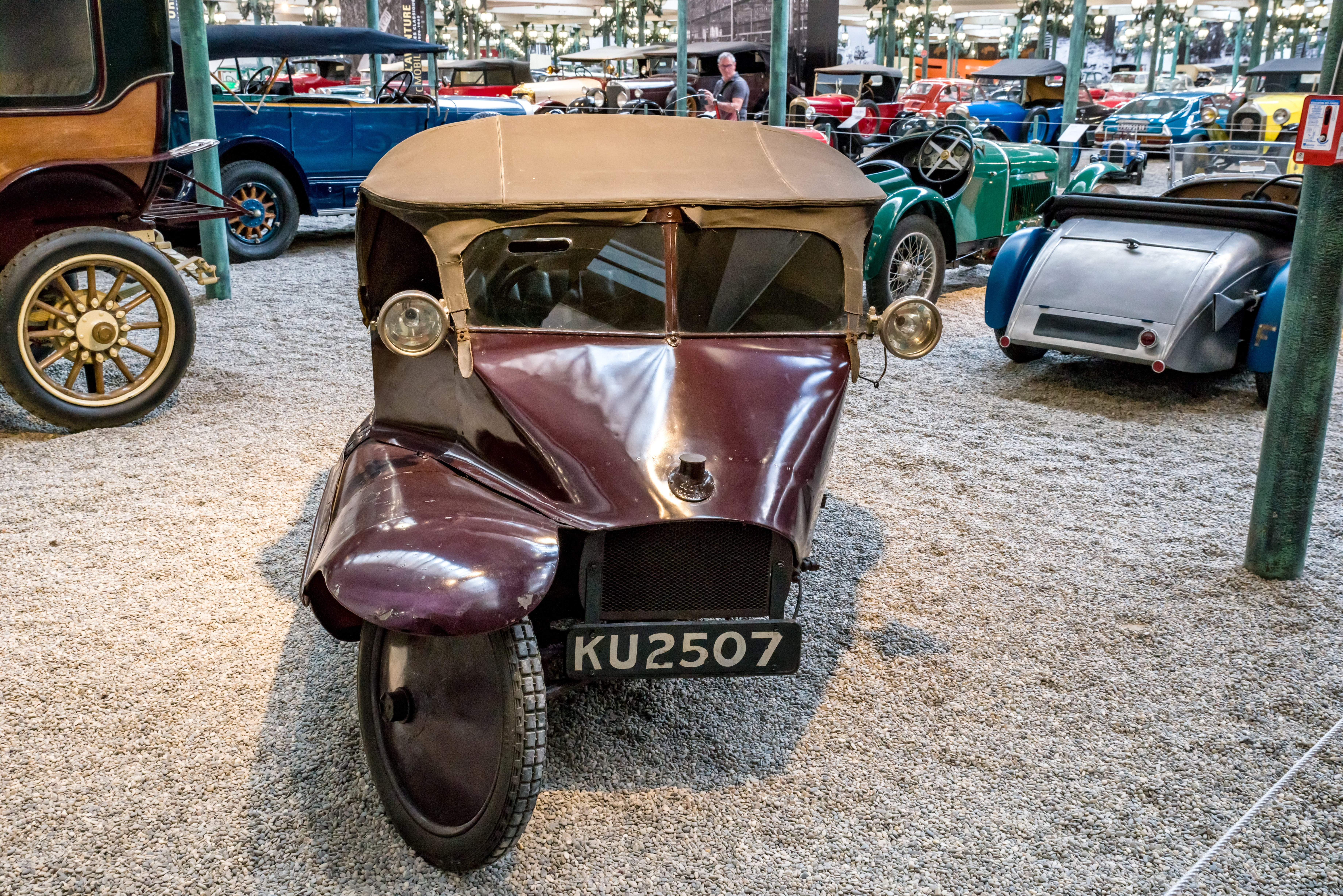 pictures from the Cité de l’Automobile – Musée National – Collection Schlump in Mulhouse, France ptictures from the 10. may 2018